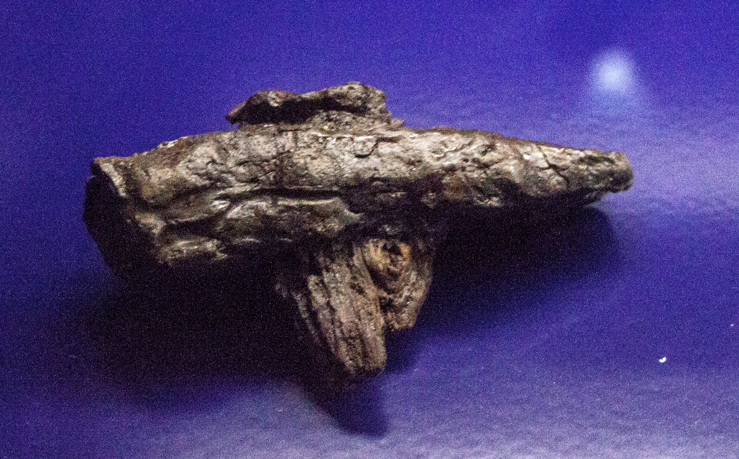 Hammer